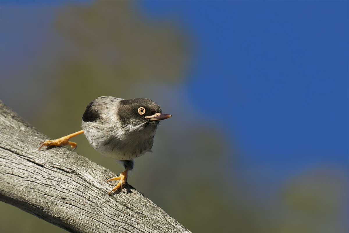 Strangways, Vic.